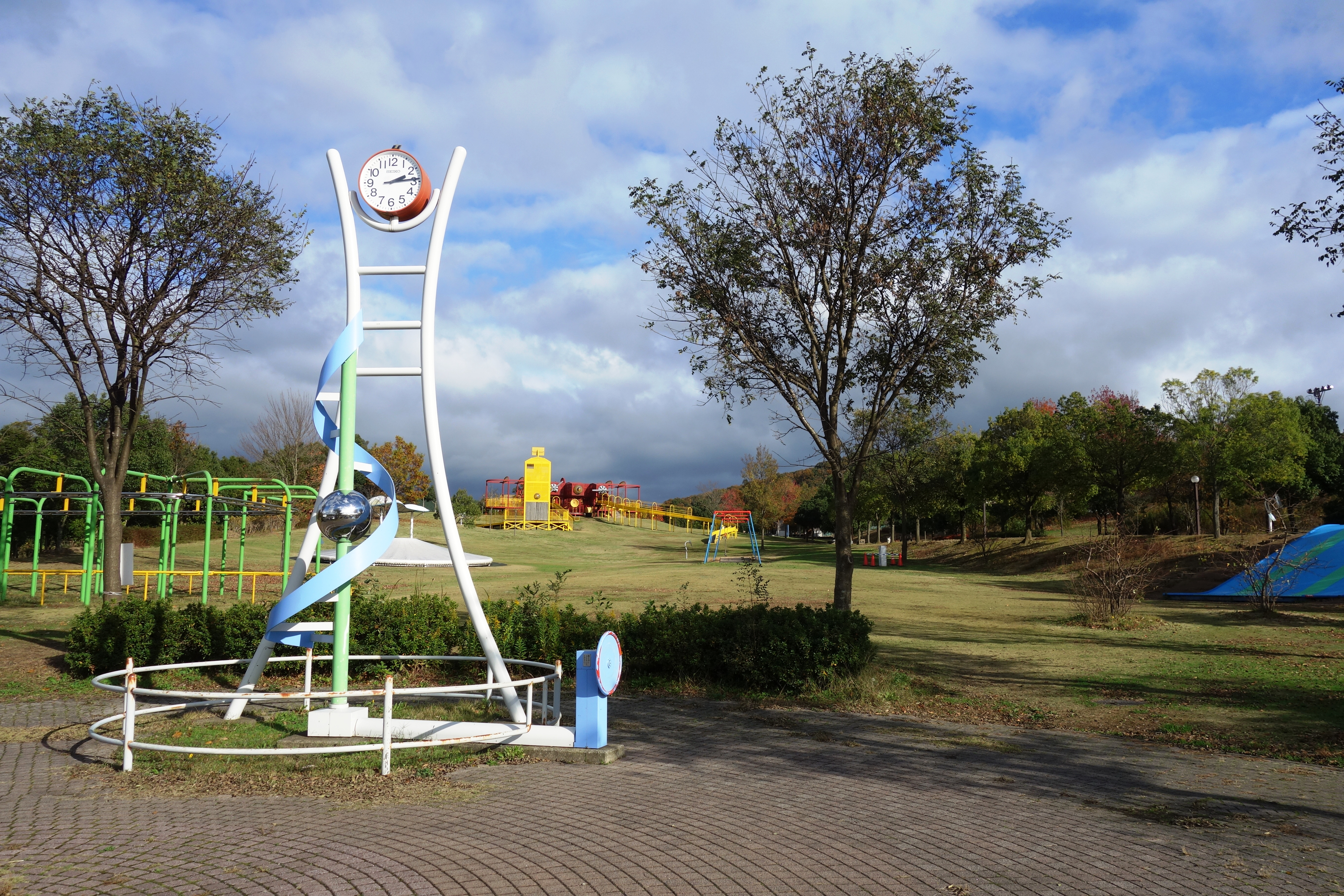 Trim Park Kanazu, Awara City, Fukui Pref., Japan